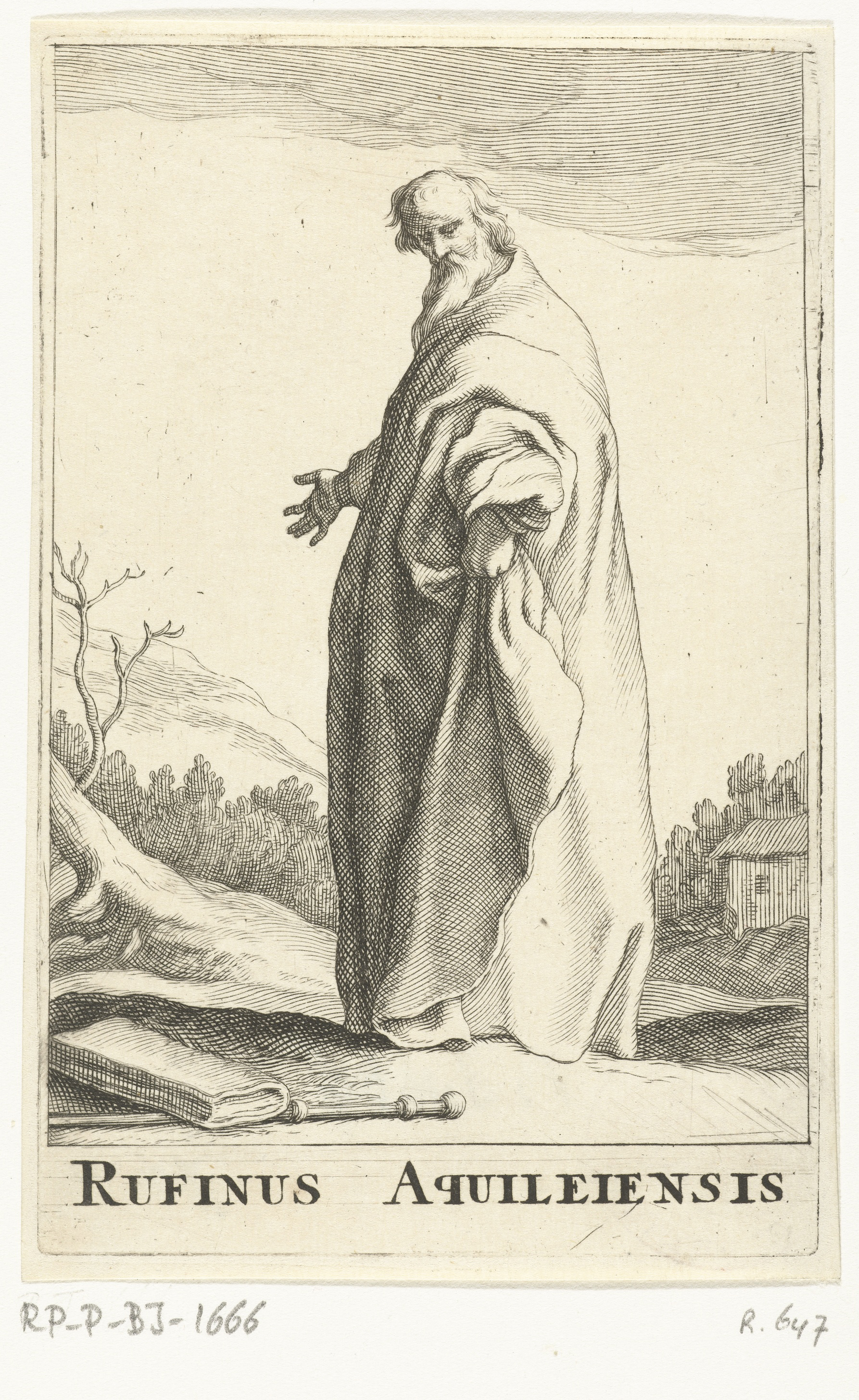 Tyrannius Rufinus or Rufinus of Aquileia by Bloemaert, Frederick